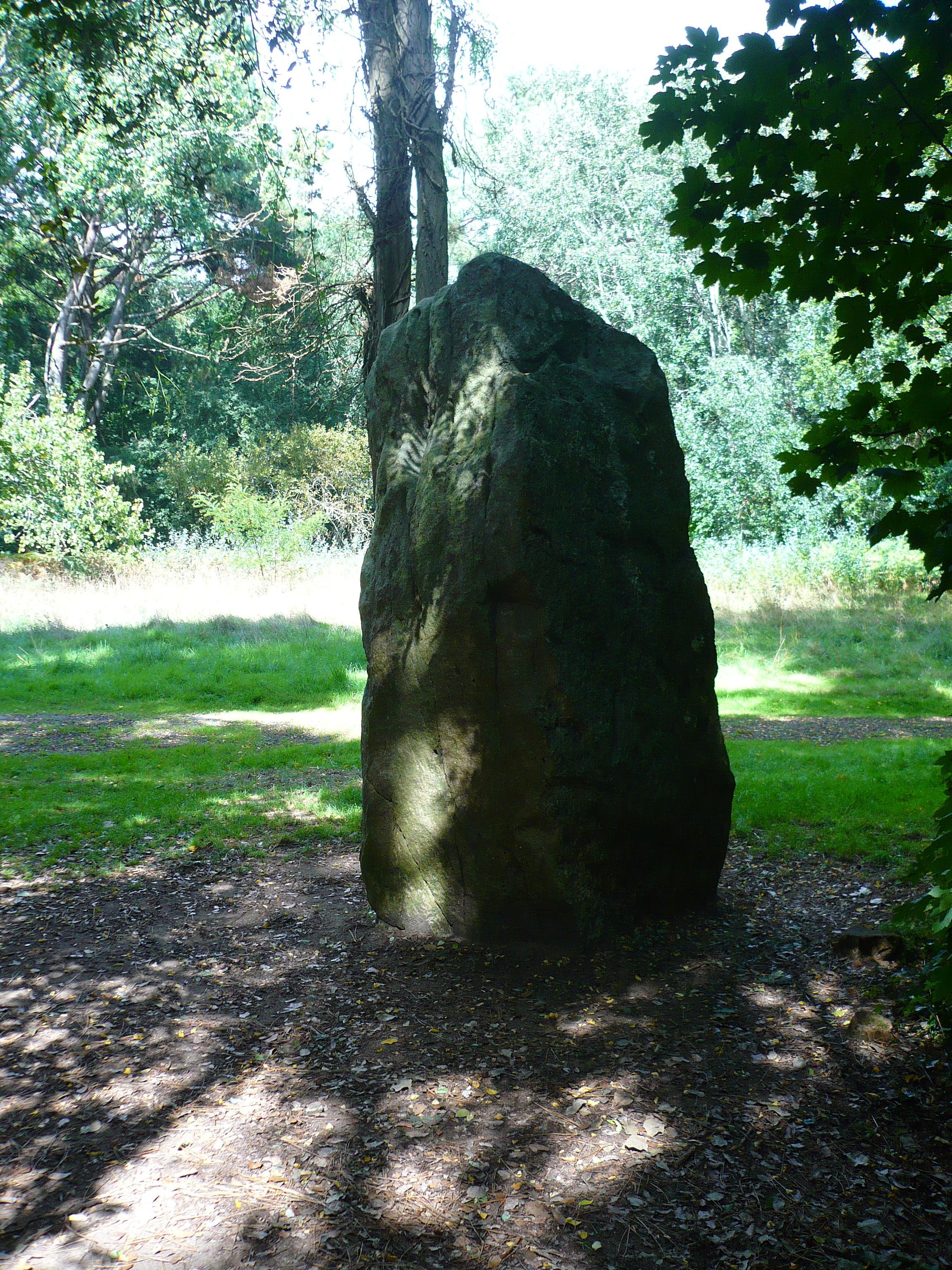 Menhir de la Pierre Attelée, Saint-Brevin-les-Pins, Loire-Atlantique, France